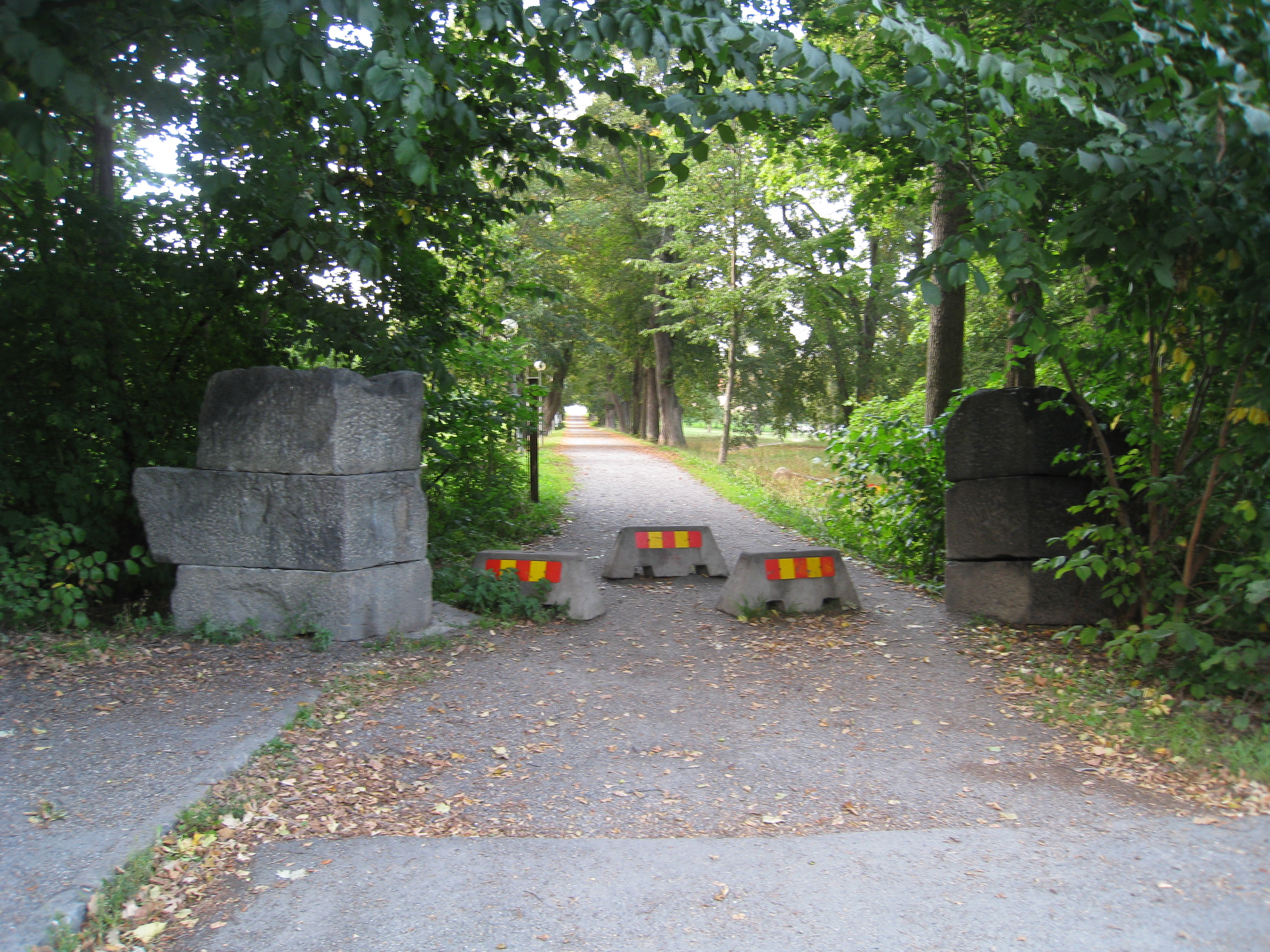 The gate-posts, from the 18th century, to Ulvsunda slott (Ulvsunda castle) in Bromma, western Stockholm, to the north of Ulvsunda Slottsväg.